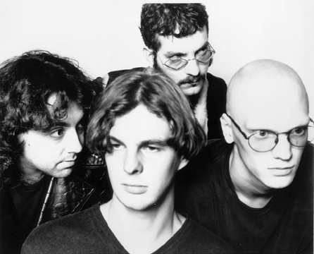 I took this photo myself in Manhattan on September 22, 1996 and am the copyright holder. The photo shows the band, Tadpoles: Todd Parker, David Max, Nick Kramer, Adam Boyette.